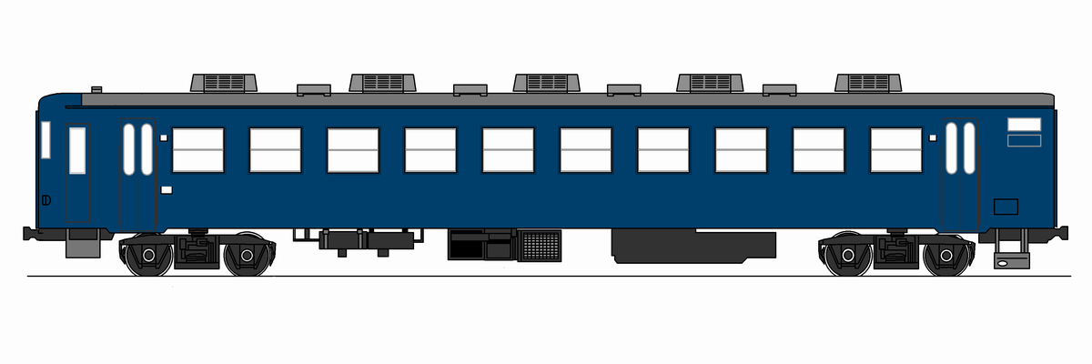 The side view of the Passenger Car(Brake_van) series 12 of JNR, local train Color.